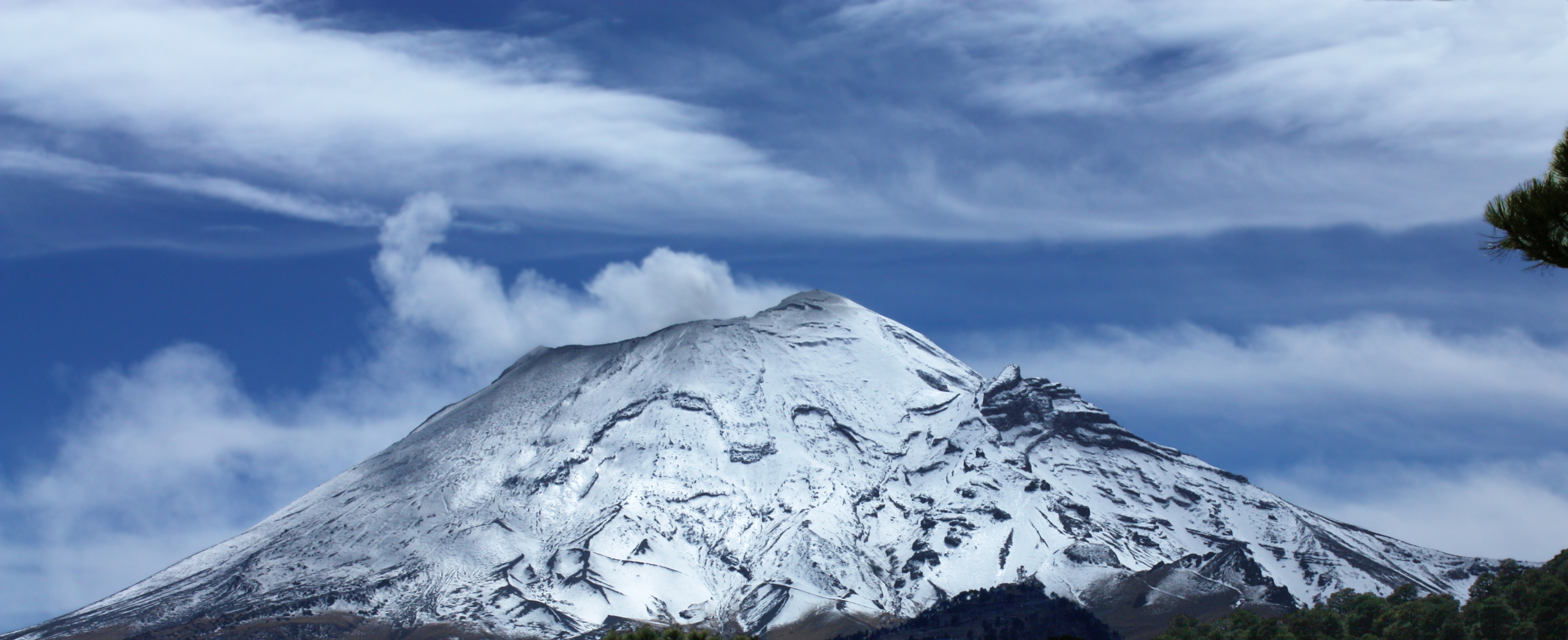 Popocatepetl with fumarole view from paso de Cortés